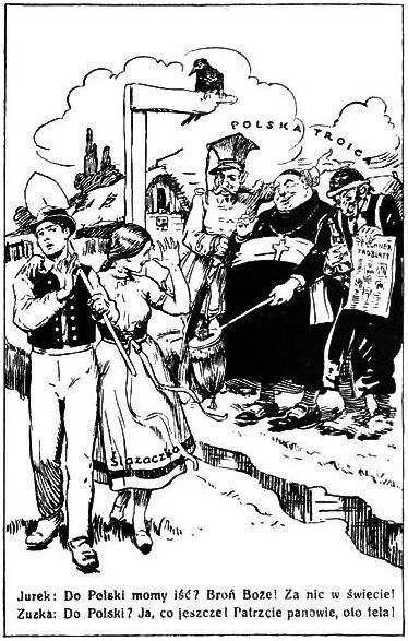 Czech anti-Polish leaflet used during the dispute between Czechoslovakia and Poland over Cieszyn Silesia in 1918 - 1920 and aimed at Cieszyn Silesians.